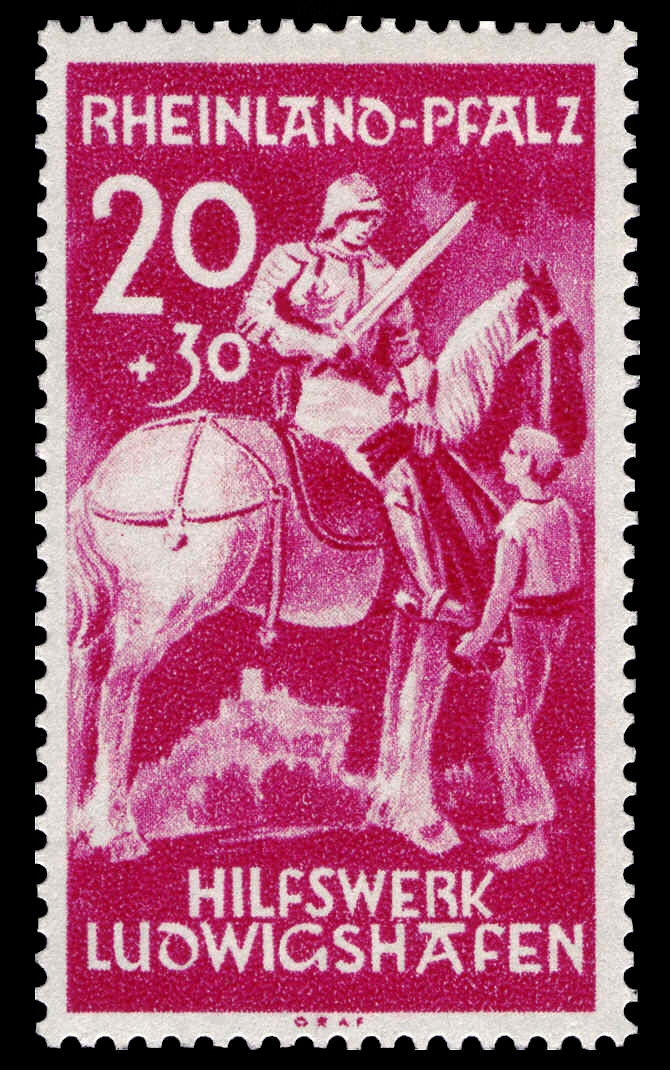 French occupied zone, Rhineland-Palatinate, stamp with additional fee for the relief organization Ludwigshafen Ausgabepreis: 20+30 Pfennig First Day of Issue / Erstausgabetag: 18. Oktober 1948 Michel-Katalog-Nr: 30 (Französische Besetzungszone, Rheinland-Pfalz)